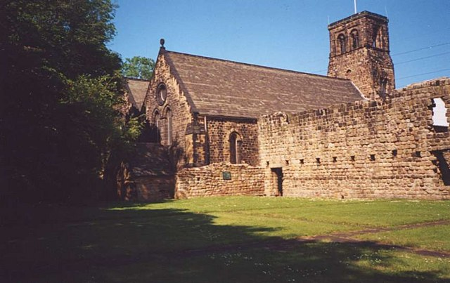 Jarrow, Tyne and Wear. On the right is part of the surviving wall of the west range of St Paul's Monastery. Beyond it is St Paul's parish church.